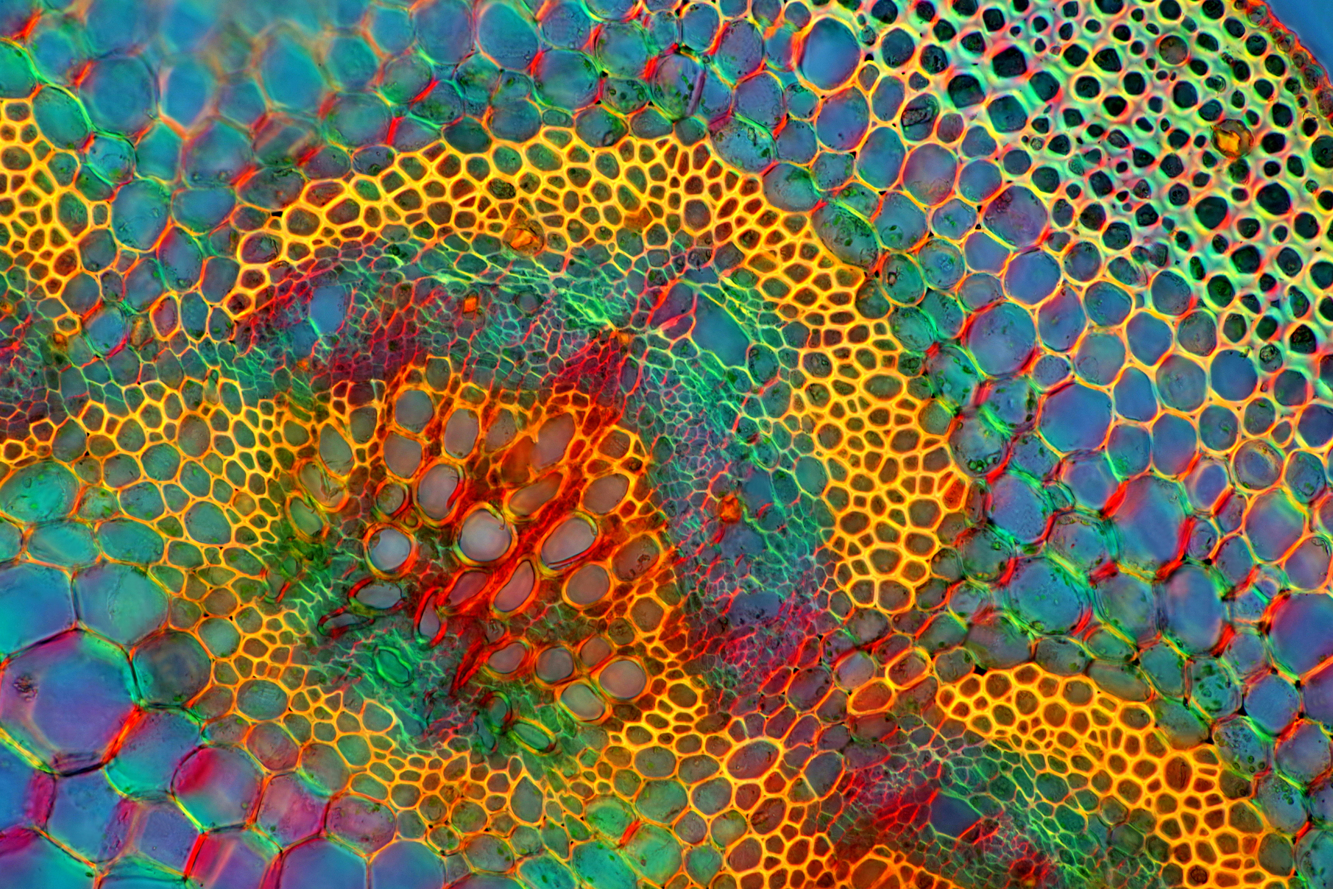 The image presents maple leaf petiole transversal cross-section. A single vascular bundle is visible. Magnification is 100X. Technique of the illumination: polarized light.